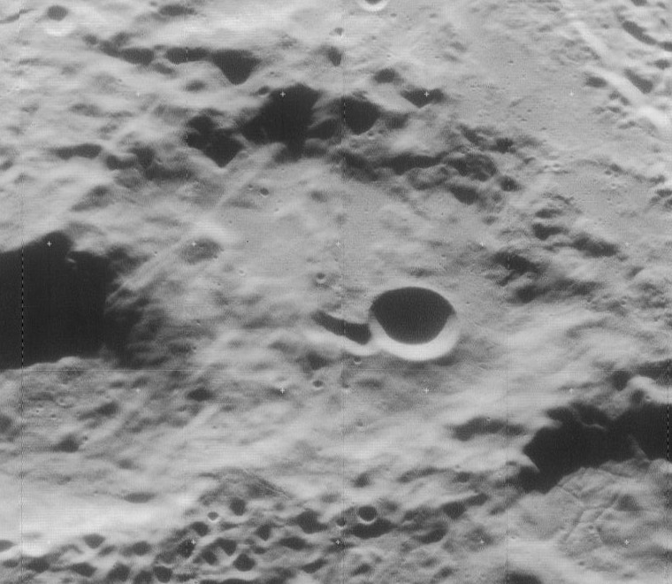 Oblique view of lunar crater Hase, facing west.